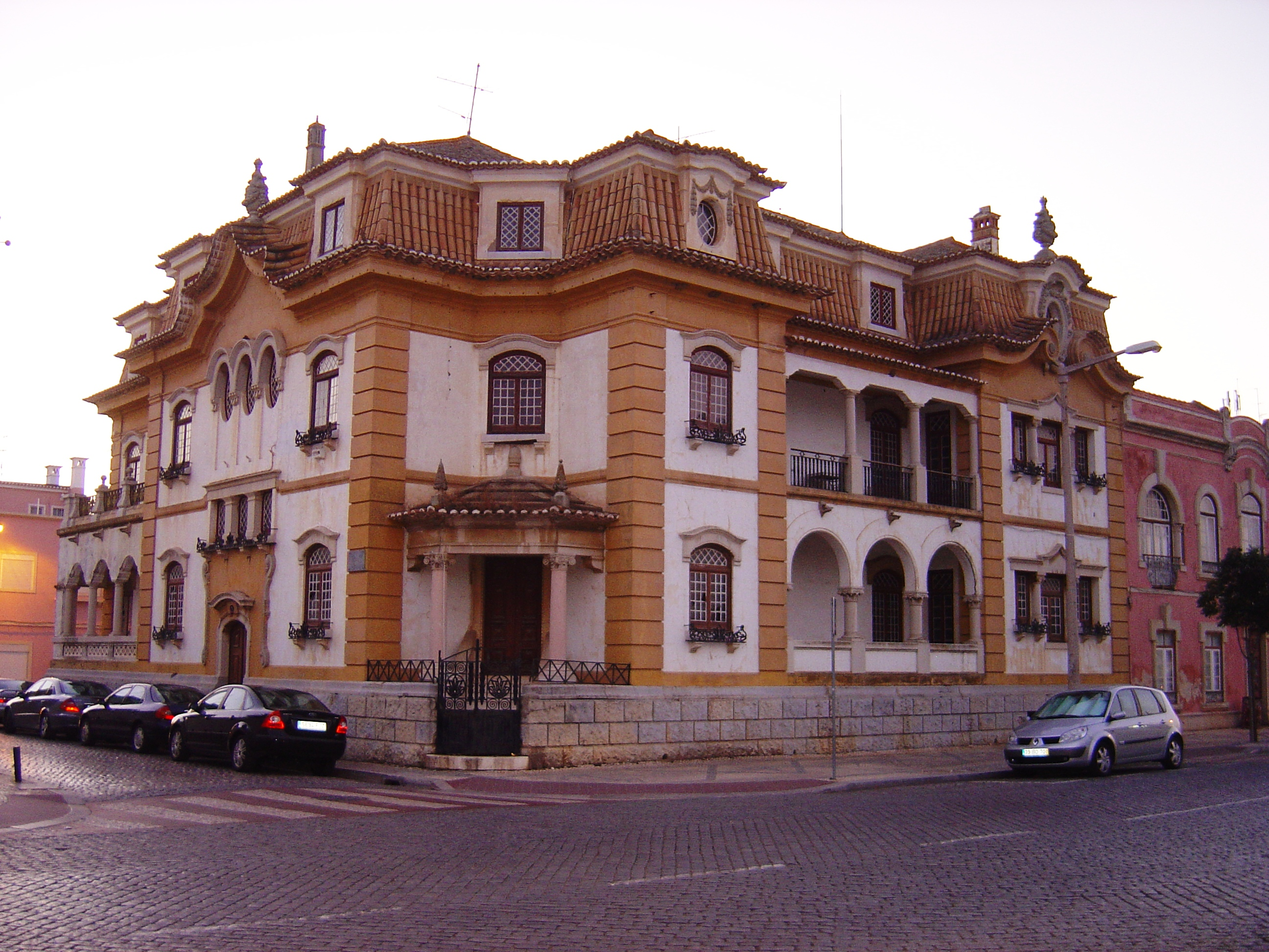 A building located on Avenida da República within the town of Vila Real de Santo António, Algarve, Portugal.